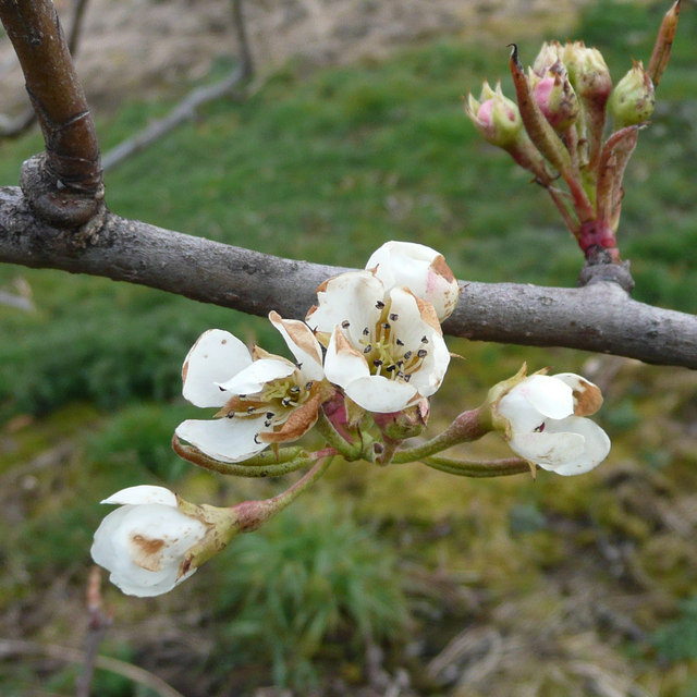 Pear blossom 2008. From the tree in 740533, March 27th is very early for opening blossom; some evidence of frost damage is clear. Also temperatures need to be higher when the blossom is open to maximise insect pollination.